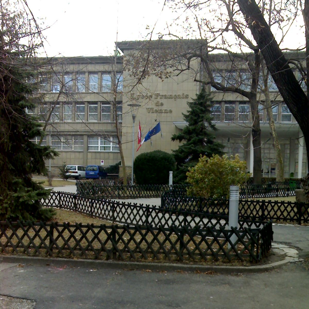 A view of the Lycée Français de Vienne, located in the 9th district Alsergrund of Vienna, Austria.